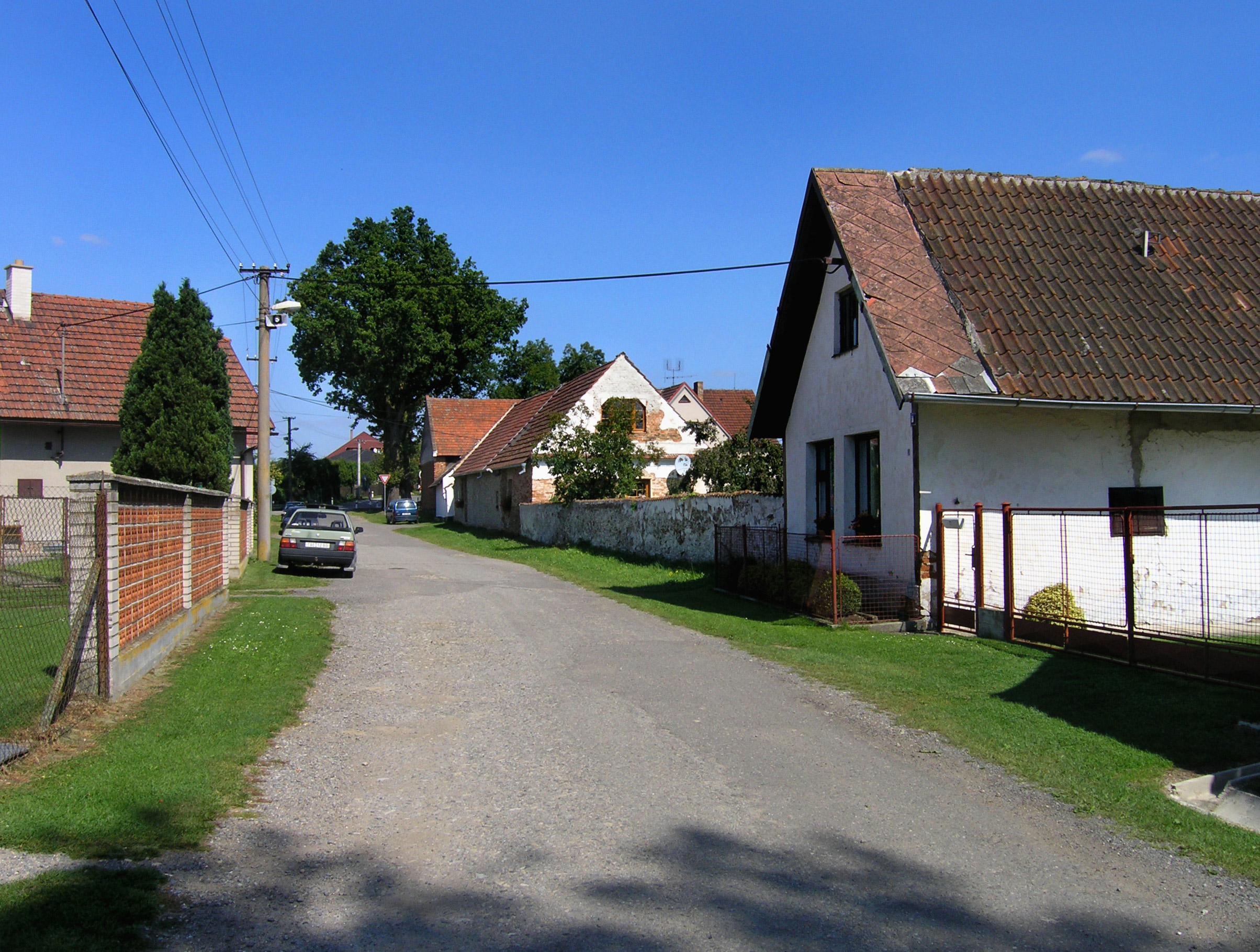 South-west part of Zhoř u Tábora village, Czech Republic